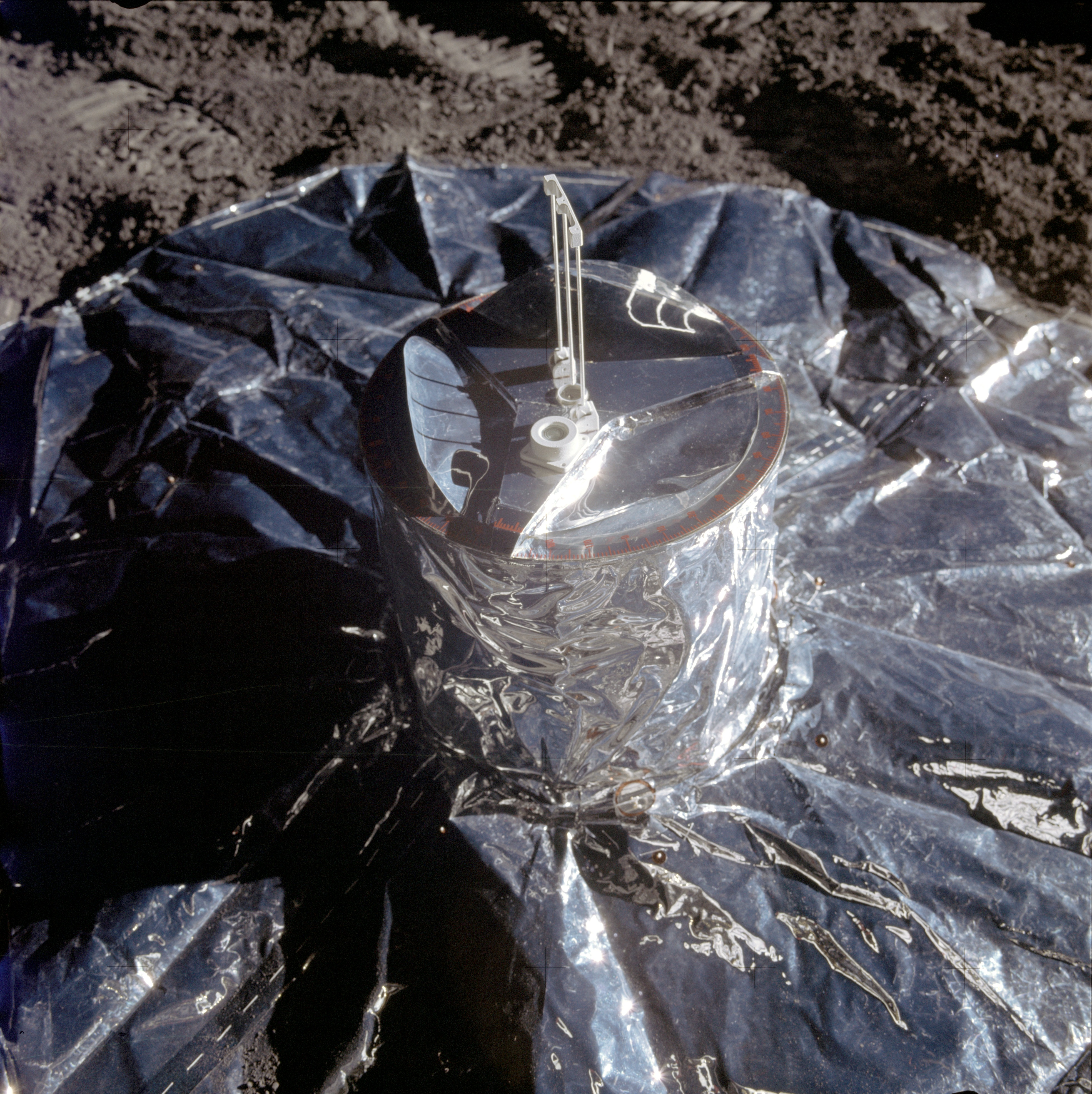 Apollo 14's Passive Seismic Experiment. A close-up view of the passive seismic experiment (PSE), a component of the Apollo lunar surface experiments package (ALSEP), which was deployed on the moon by the Apollo 14 astronauts during their first extravehicular activity (EVA). While astronauts Alan B. Shepard Jr., commander, and Edgar D. Mitchell, lunar module pilot, descended in the Lunar Module (LM) to explore the moon, astronaut Stuart A. Roosa, command module pilot, remained with the Command and Service Modules (CSM) in lunar orbit.